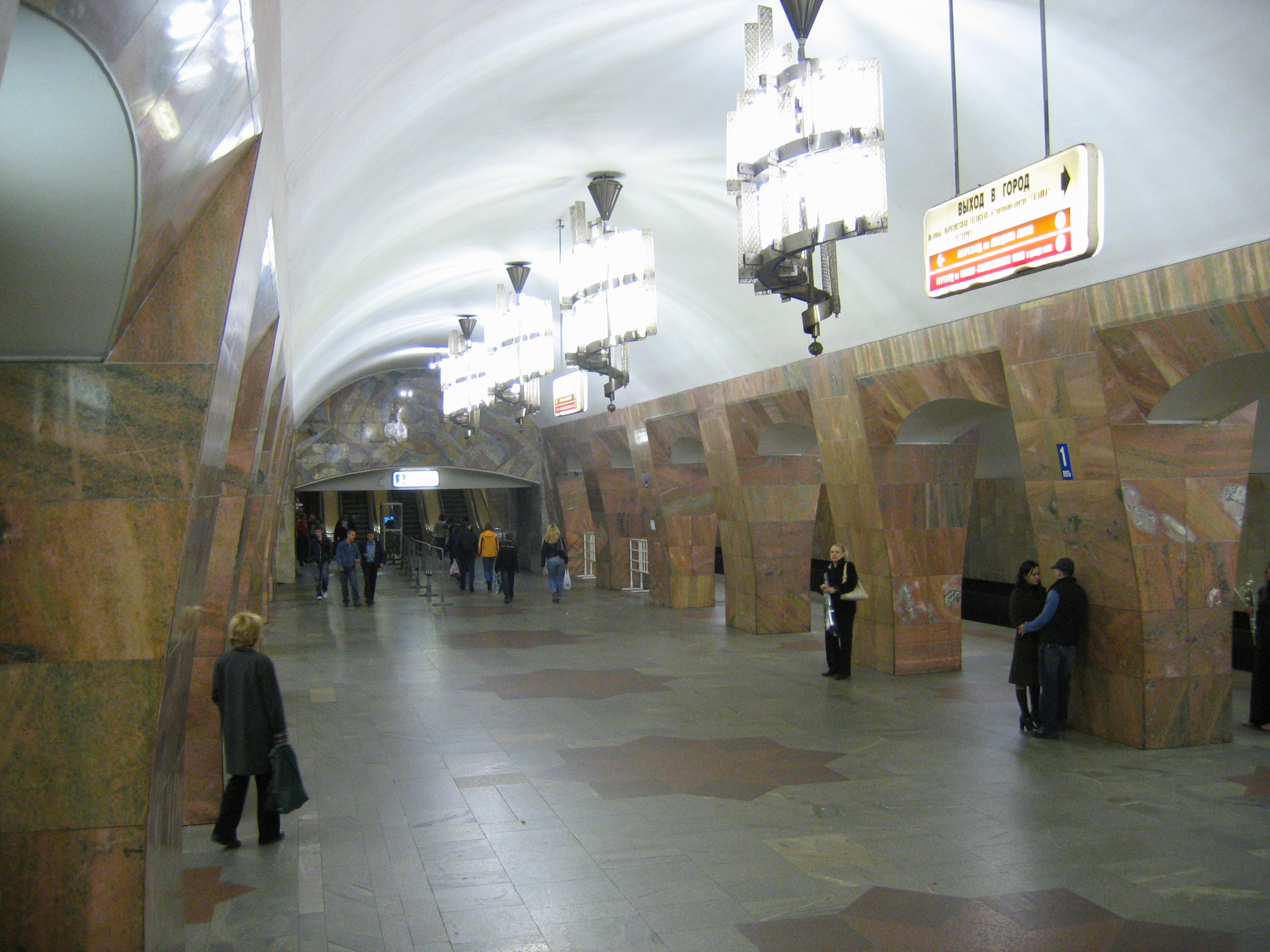 Marksistskaya station of Moscow Metro.